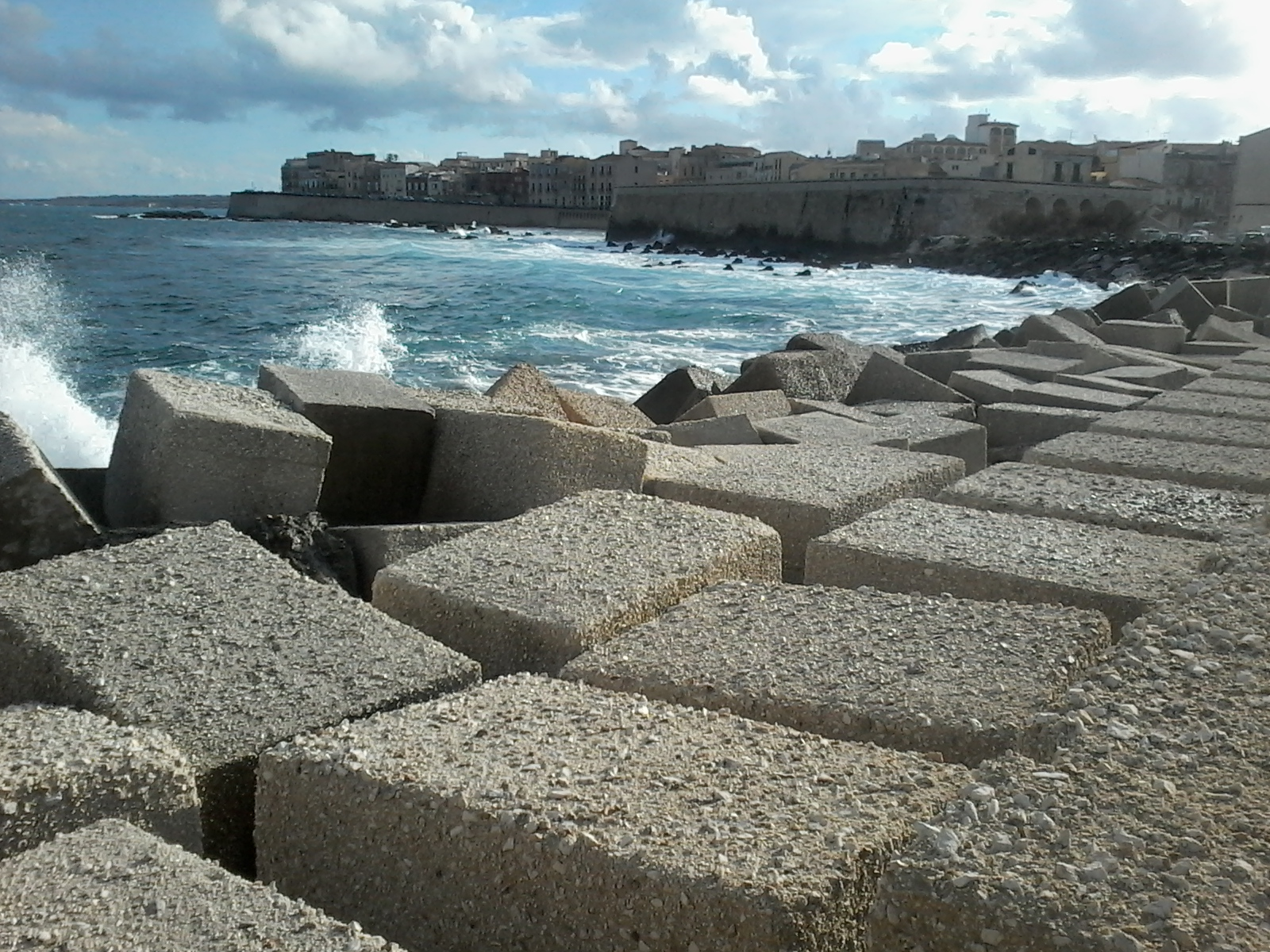 Bay, Syracuse